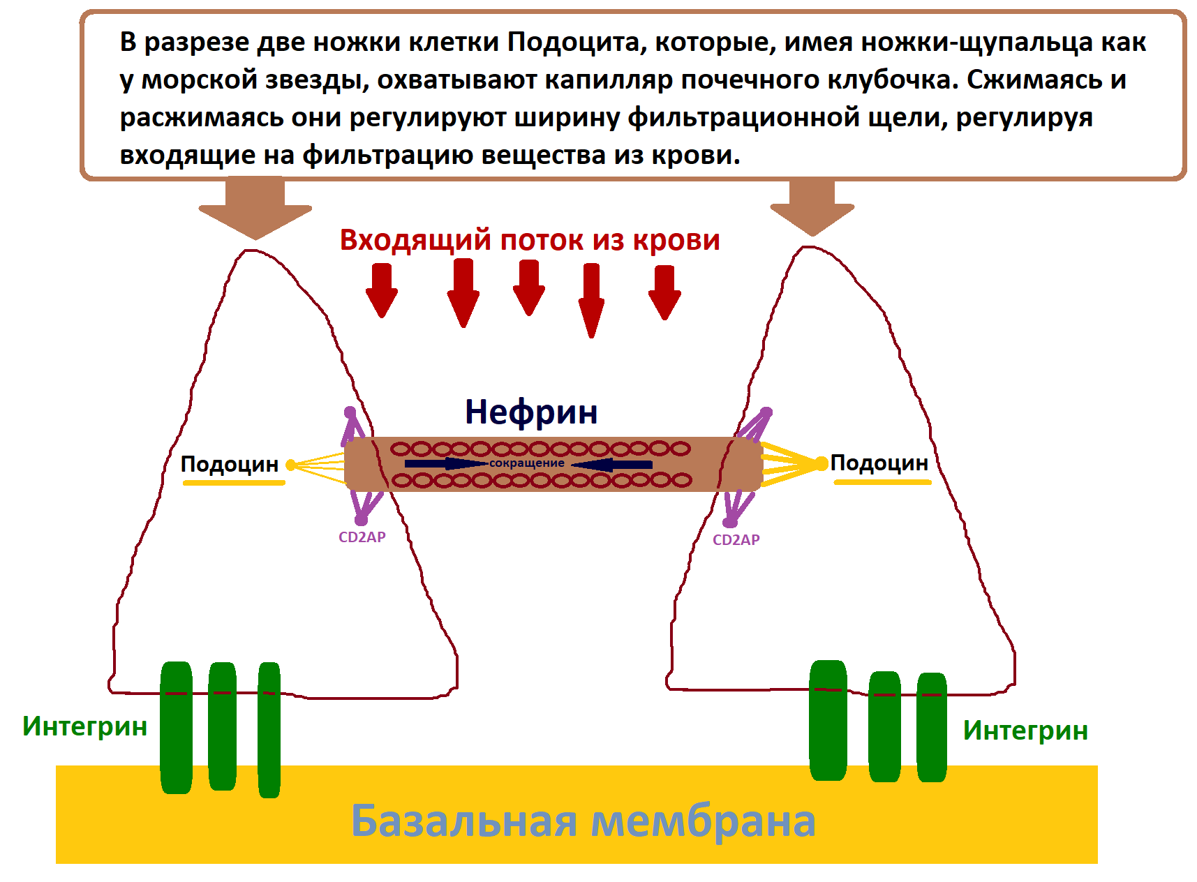 podocin protein anchoring nephrin